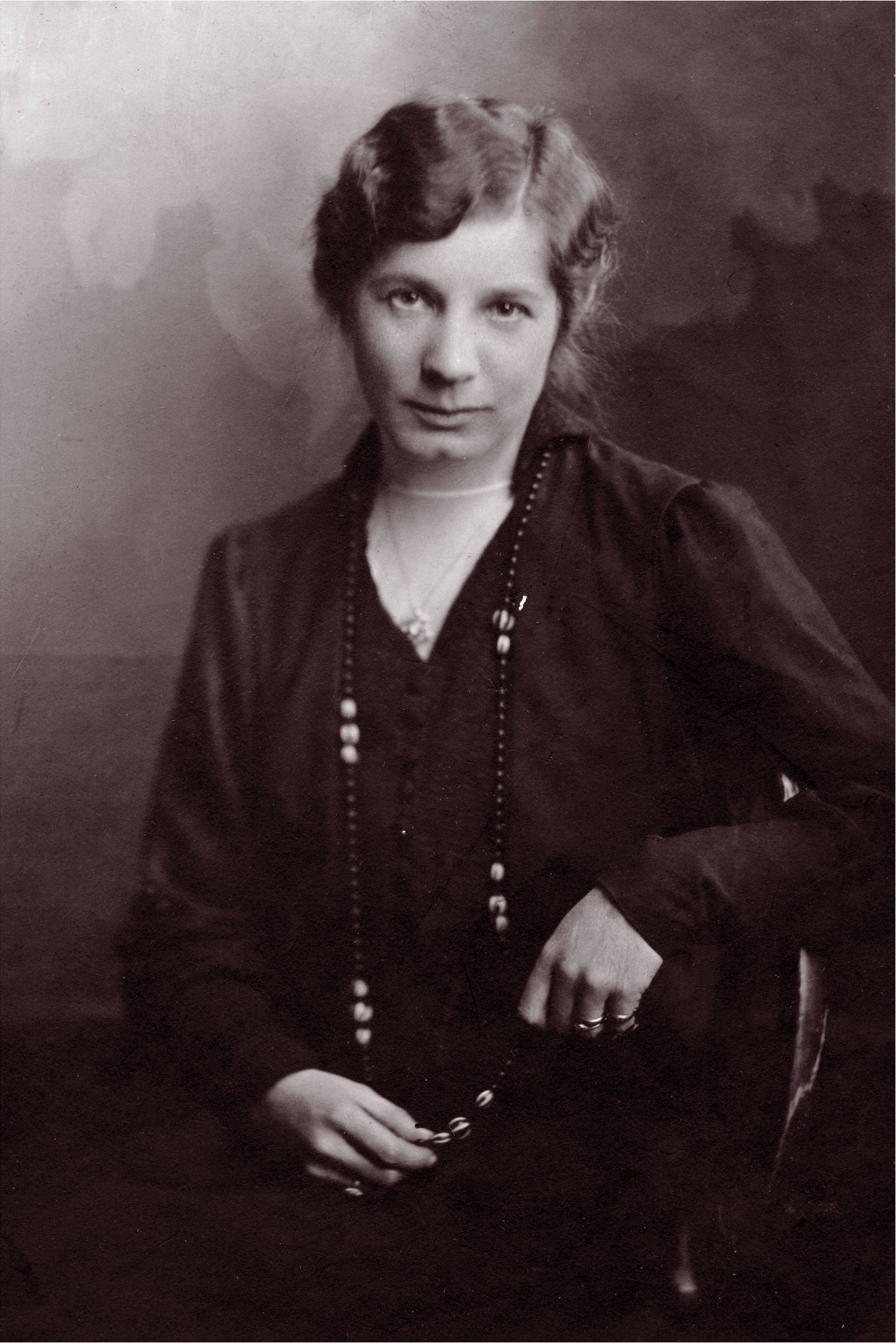 Swedish author, journalist and feminist Elin Wägner (1882—1949), in the 1910s.